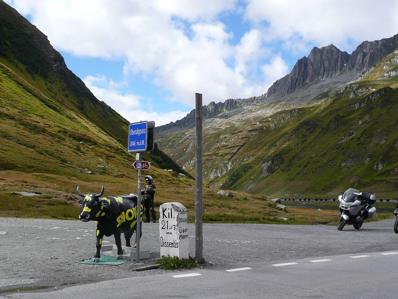 Oberalppass Pass at 2040 m above Hospental and Andermatt